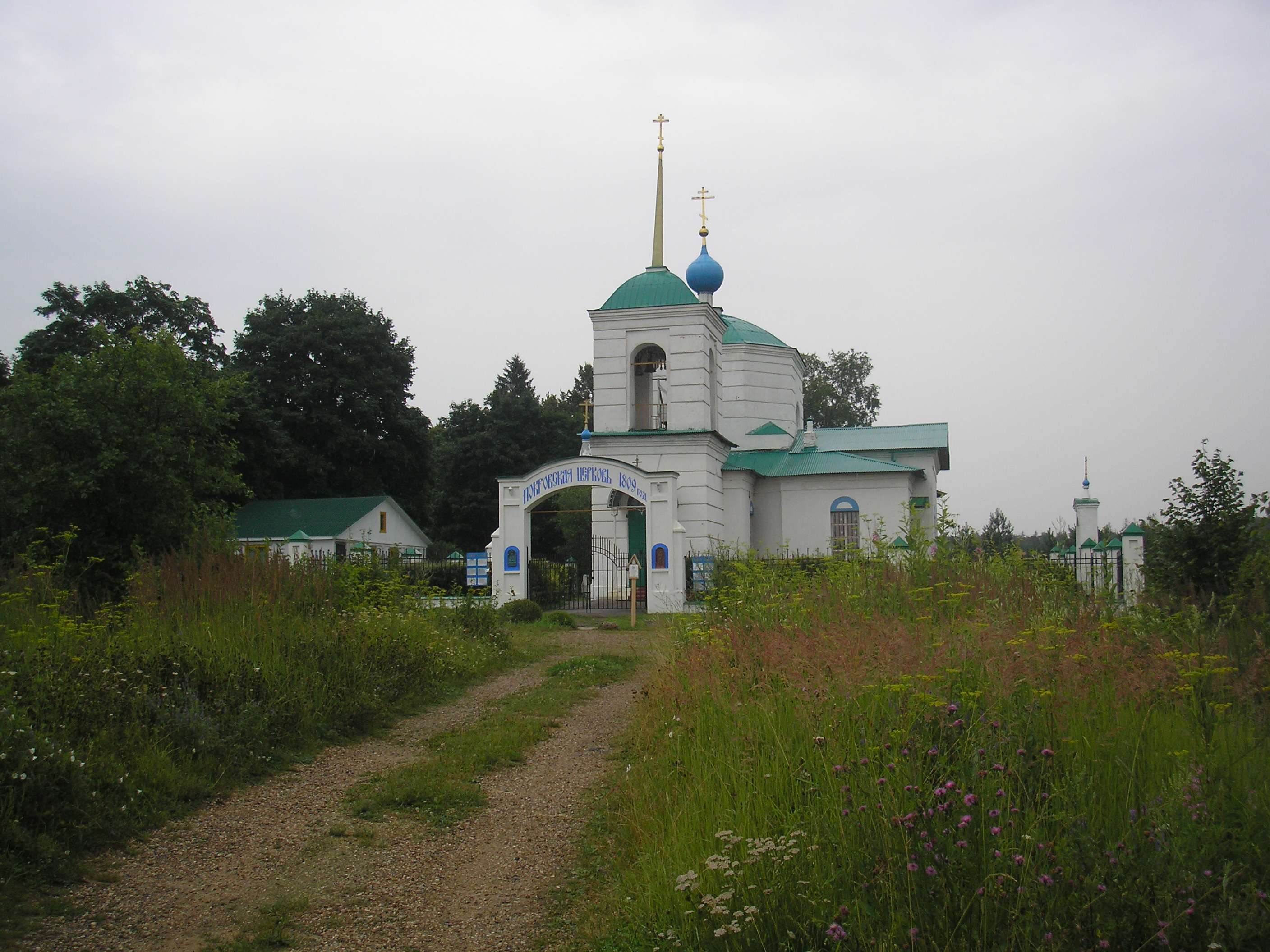 Church of the Intercession of the Holy Virgin in Ognikovo. Istra district. Moscow region.